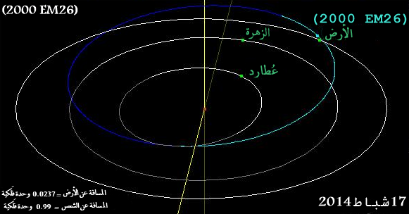 Orbit Diagram